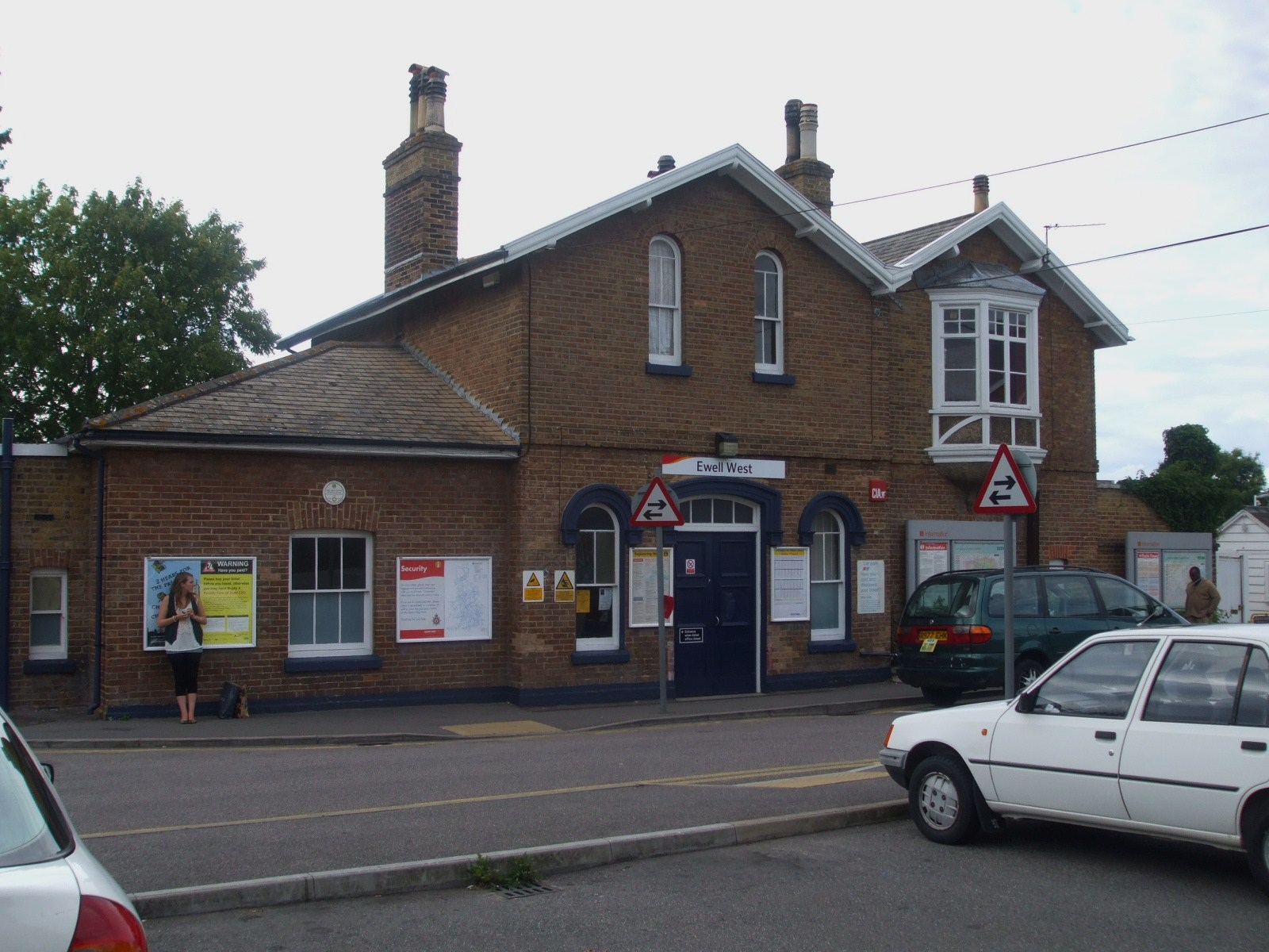 Ewell West station building